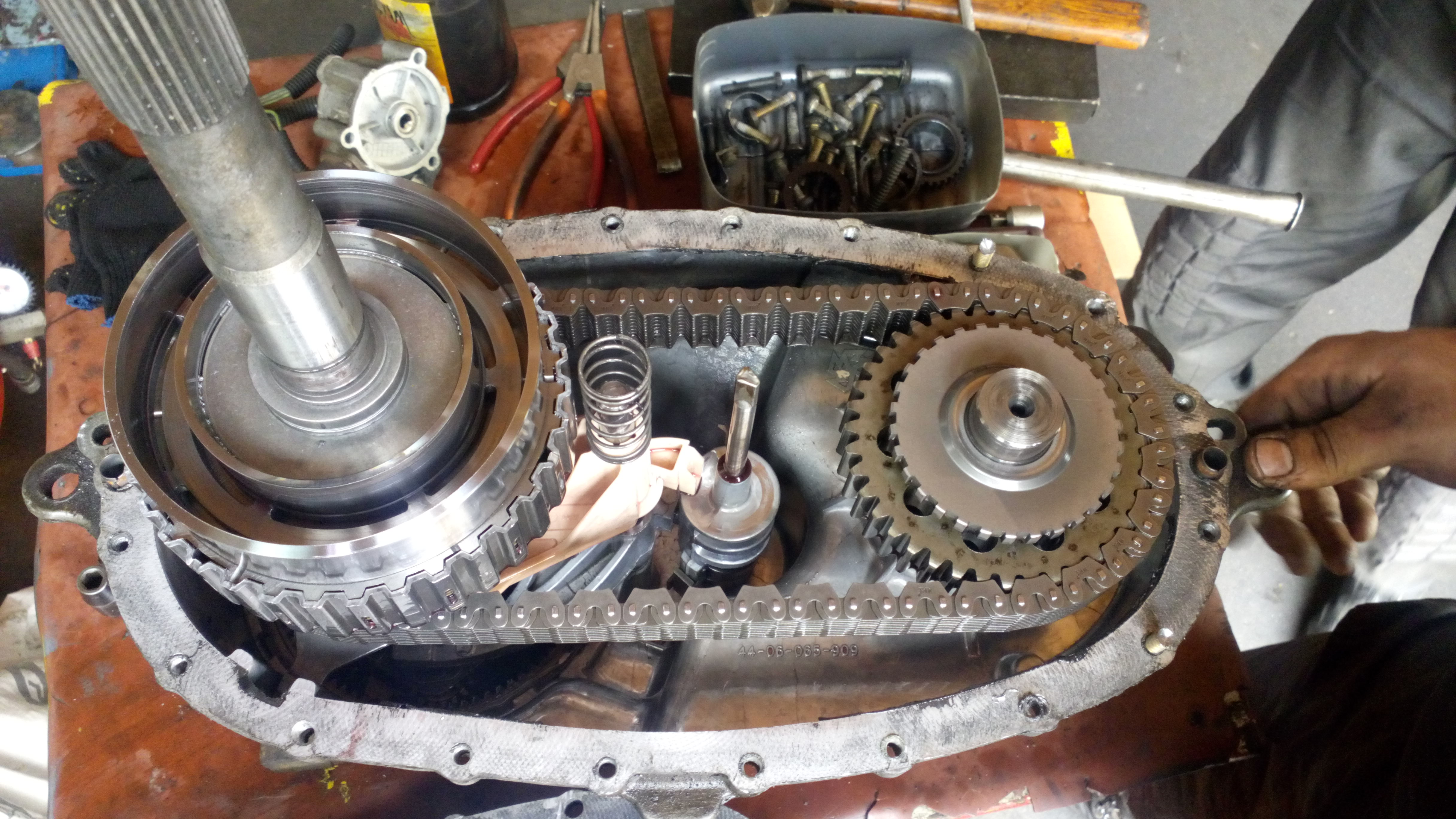 Morse chain in disassemble transfer case BorgWarner type 4406 from the Ford Expedition 5.4L.